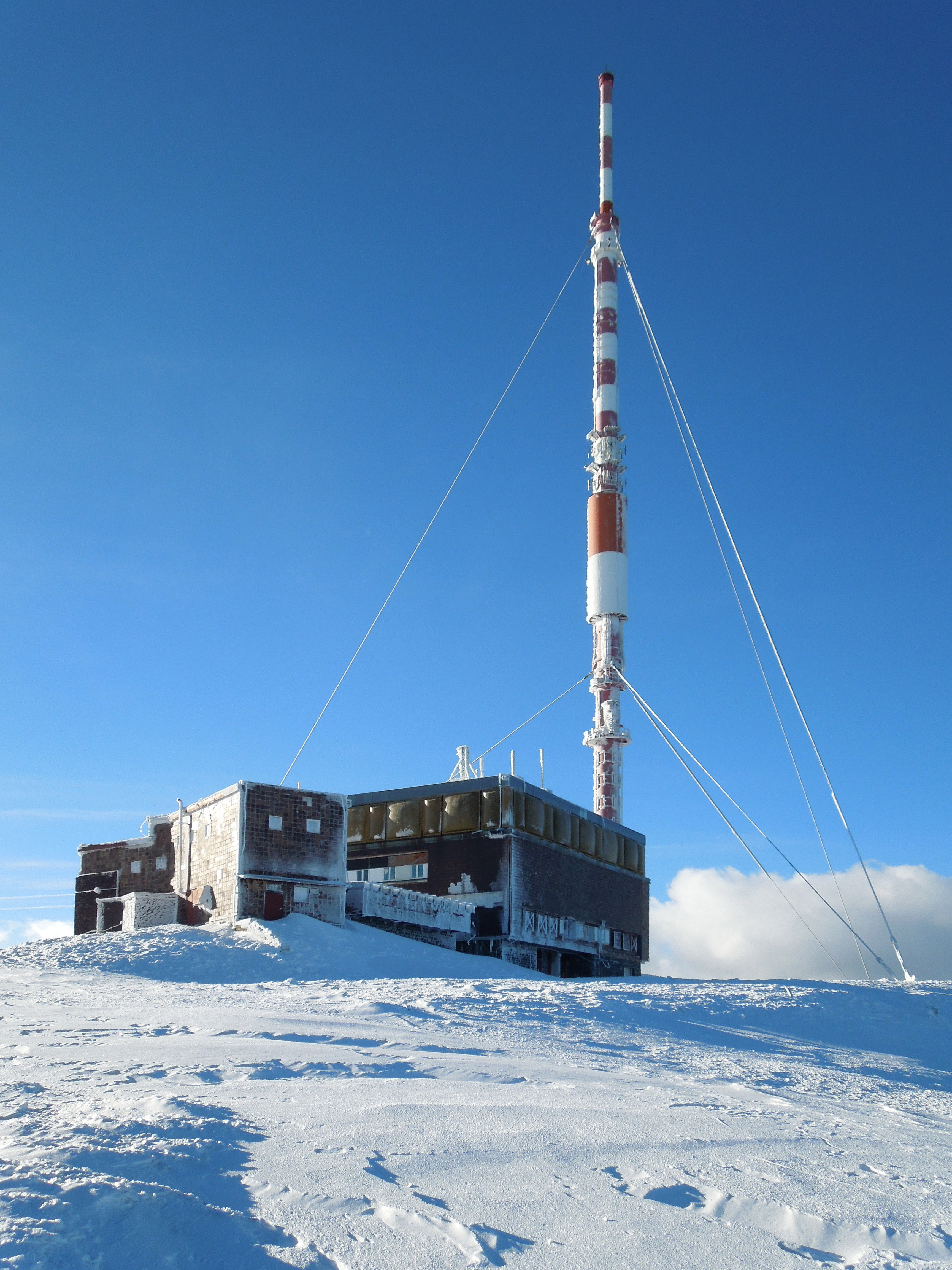 Transmitter Kráľova hoľa on peak Kráľova hoľa in winter This is a photography of Natura 2000 protected area with ID SKUEV0310 This is a photography of Natura 2000 protected area with ID SKCHVU018